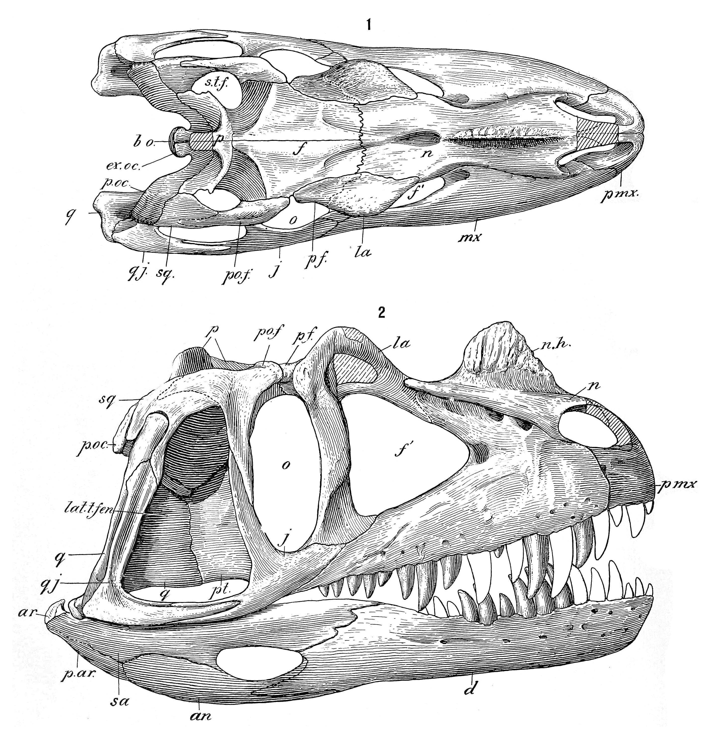 Skull diagram of Ceratosaurus nasicornis, from Gilmore, C.W. (1920). "Osteology of the carnivorous Dinosauria in the United States National Museum, with special reference to the genera Antrodemus (Allosaurus) and Ceratosaurus". Bulletin of the United States National Museum. 110 (110): 1–154. Osteology of the carnivorous Dinosauria in the United States National museum : with special reference to the genera Antrodemus (Allosaurus) and Ceratosaurus /